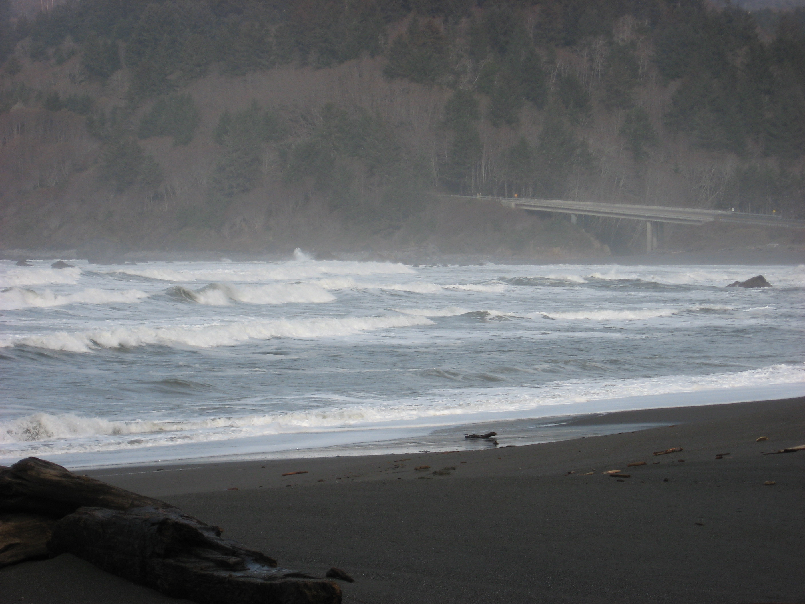 False Klamath, Del Norte Coast Redwoods State Park, California, USA